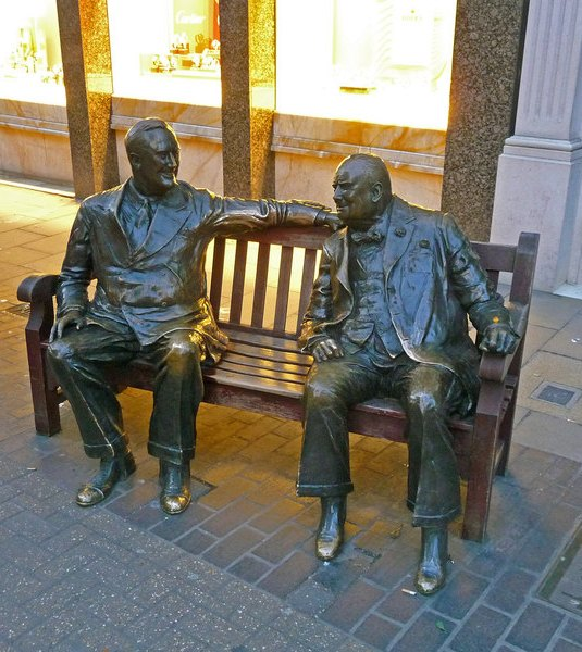 Bronze statues of Franklin D. Roosevelt and Winston Churchill sitting 'talking' together on a bench in Mayfair.This statue is called 'Allies' and was a gift from the Bond Street Association to the City of Westminster.